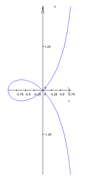 Strophoid